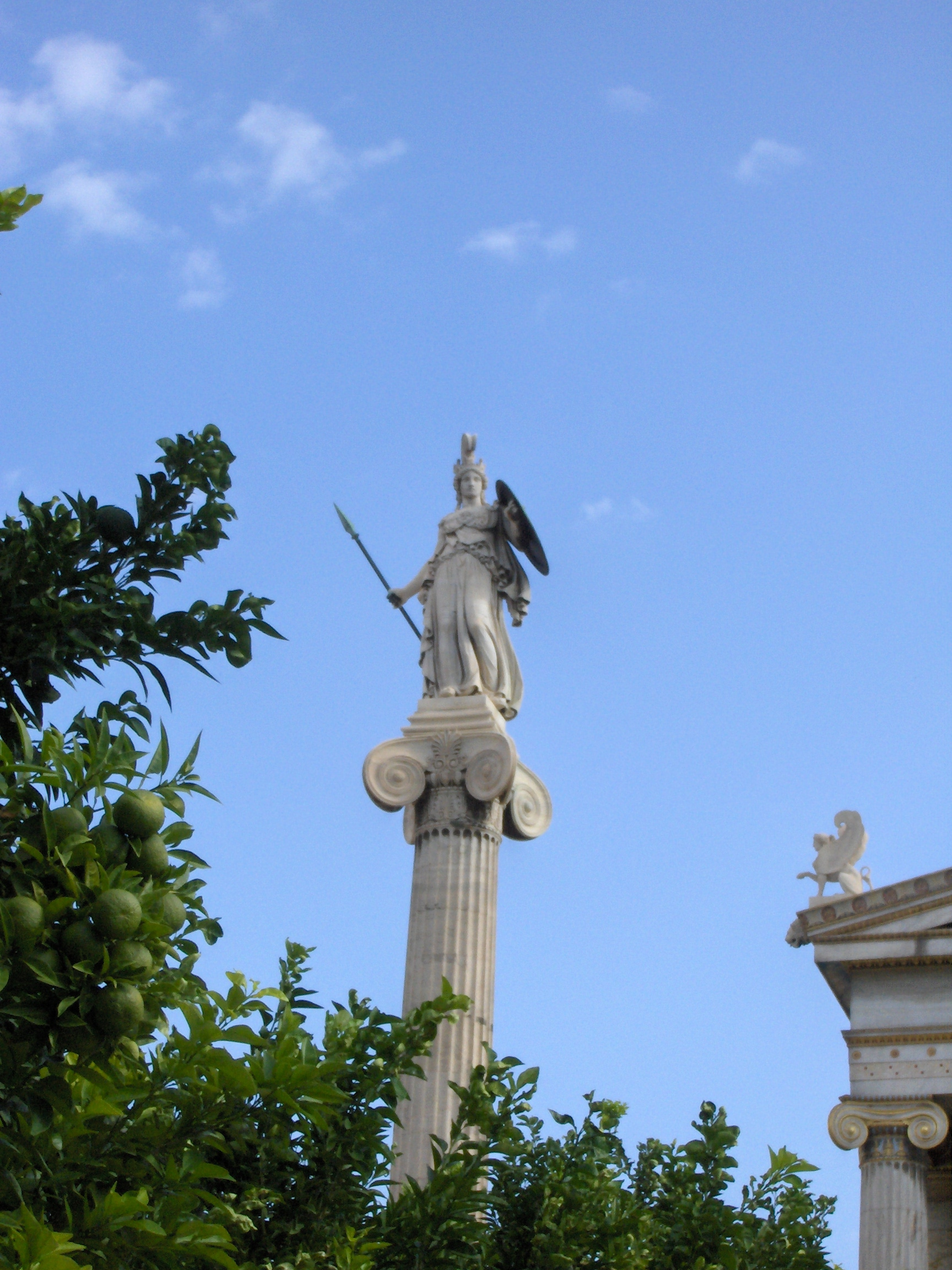 The neoclassical Column of Athena, by Leonidas Drosis, in front of the Academy of Athens.